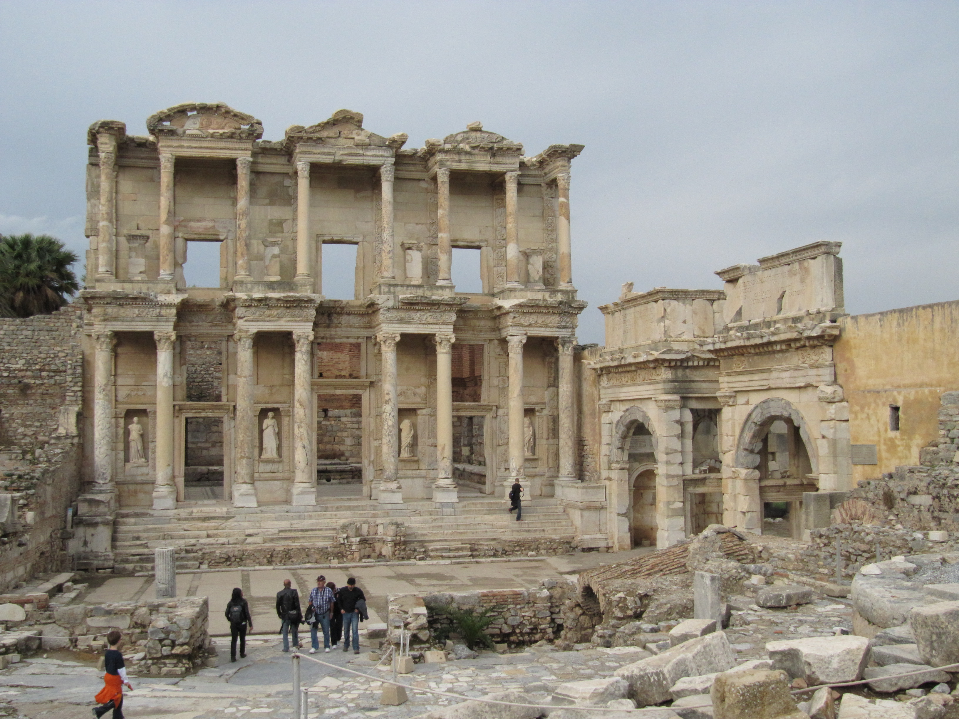 Library of Celsus, Ephesos